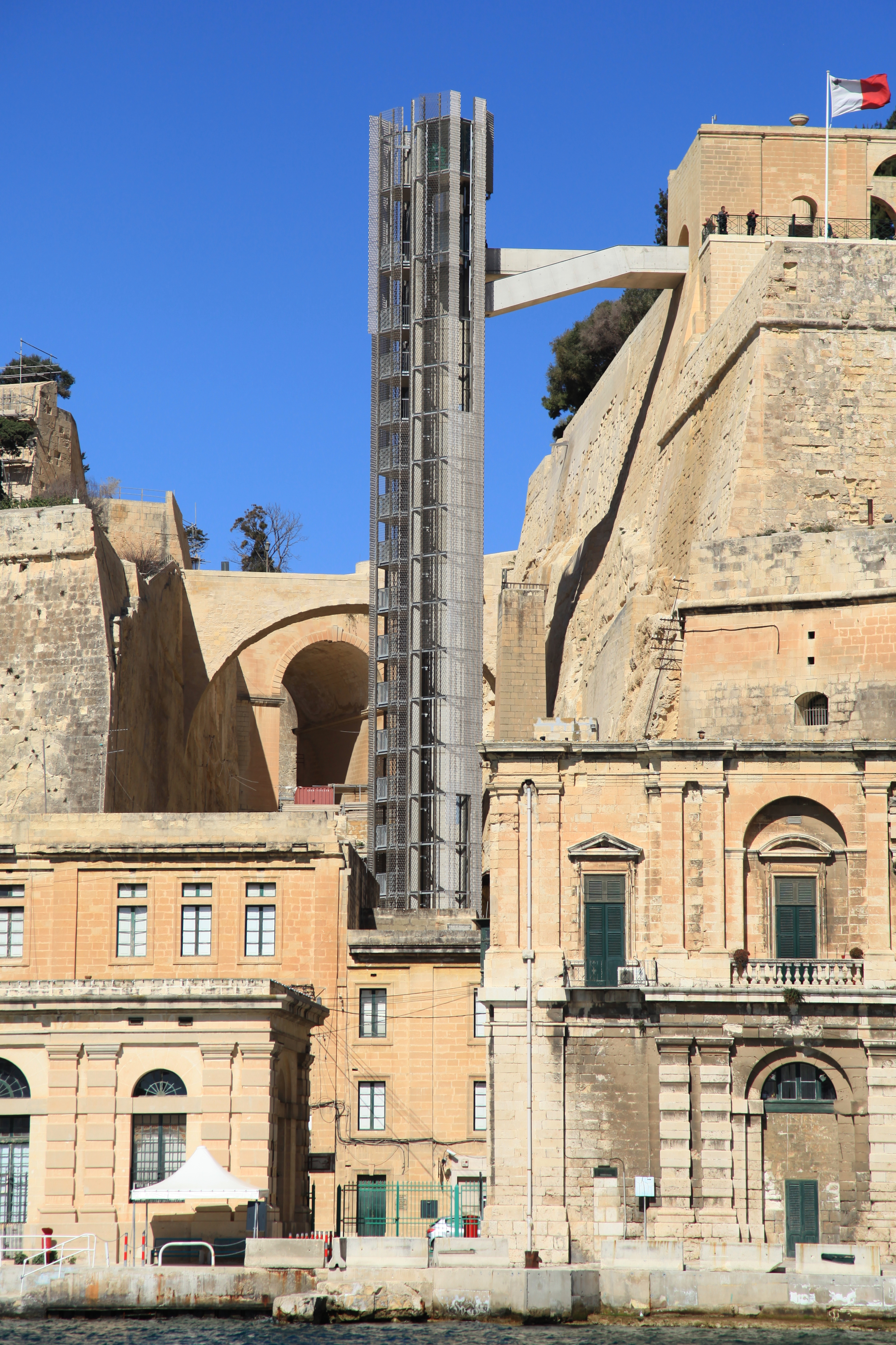 View from a Malta sightseeing two harbours cruise boat to Xatt Lascaris and the Upper Barrakka Lift in Valletta, Malta